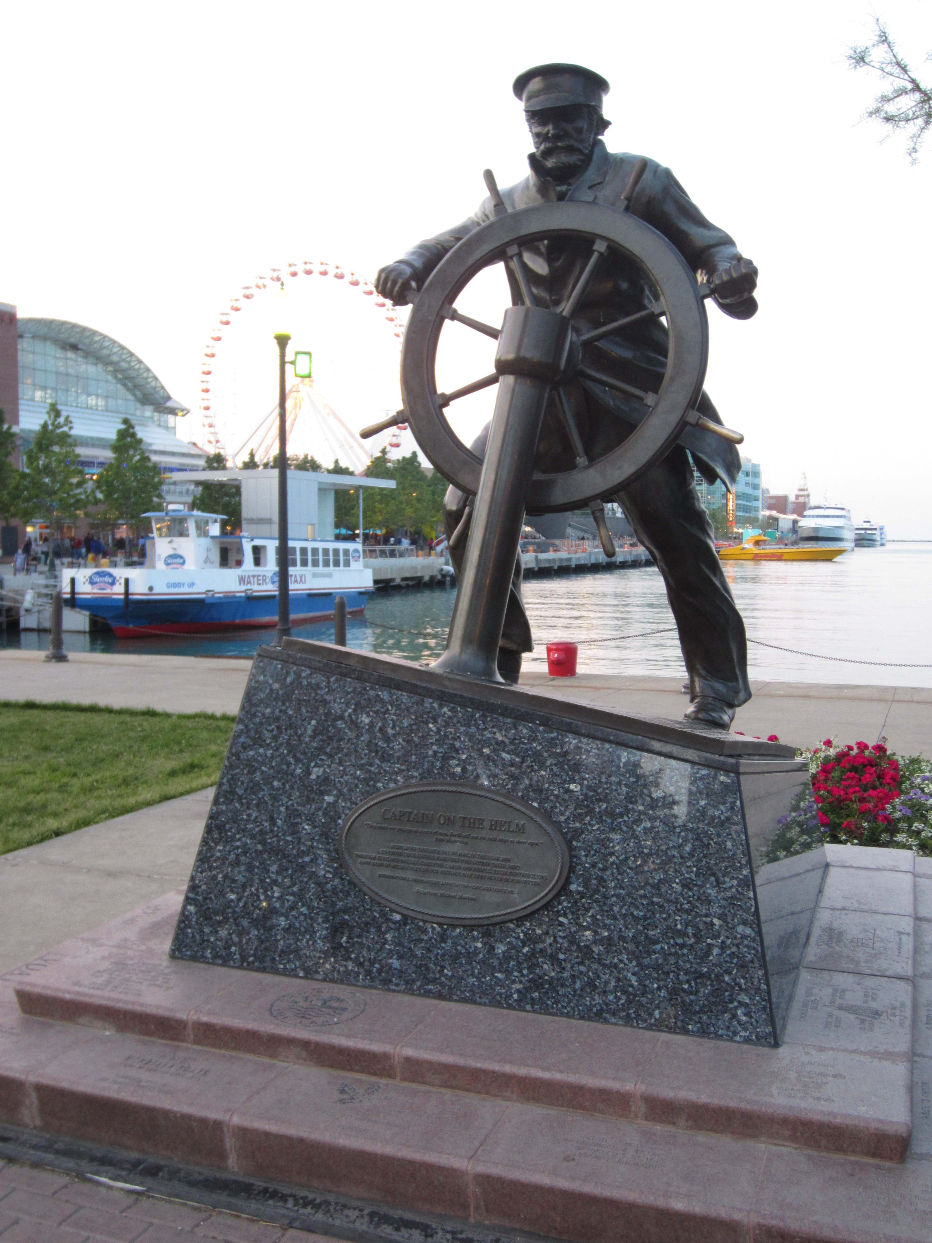 Chicago, Illinois, June 2015